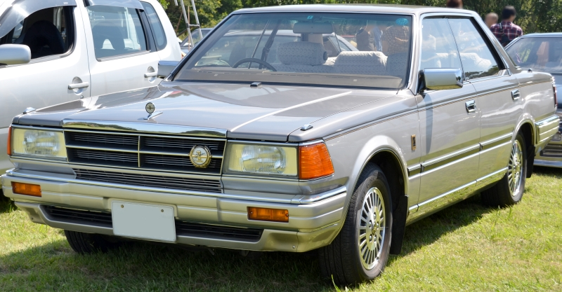 Nissan Gloria Jack Nicklaus Version